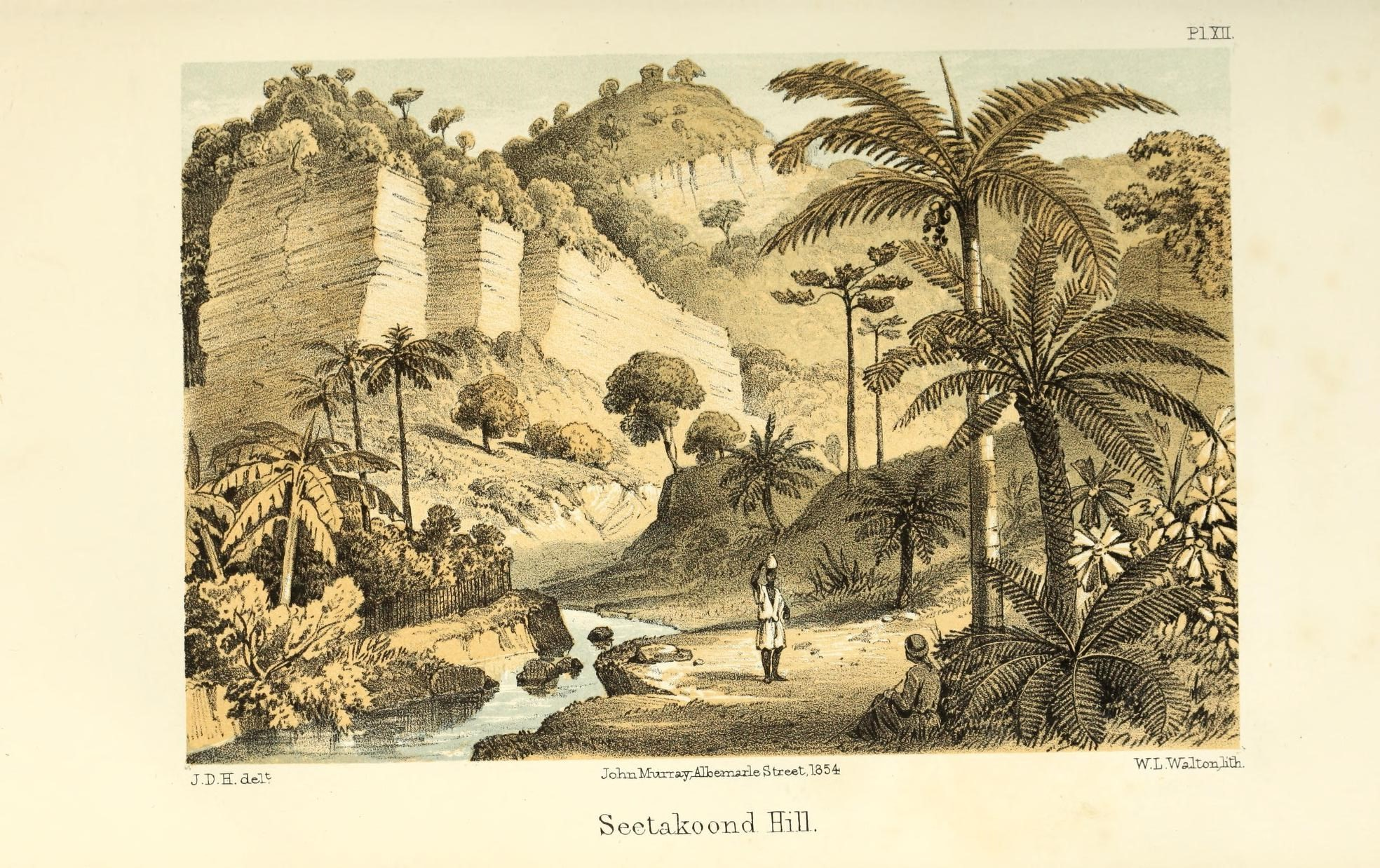 Himalayan journals;. London,J. Murray,1854..